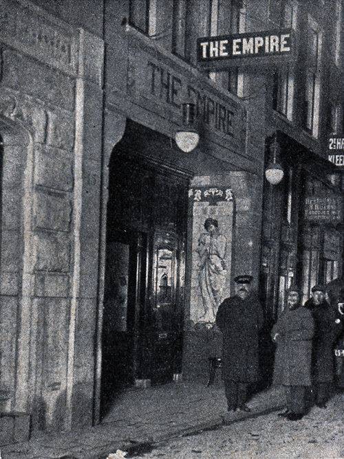 Gay bar The Empire at Nes 17 in Amsterdam. First mentioned in 1911.